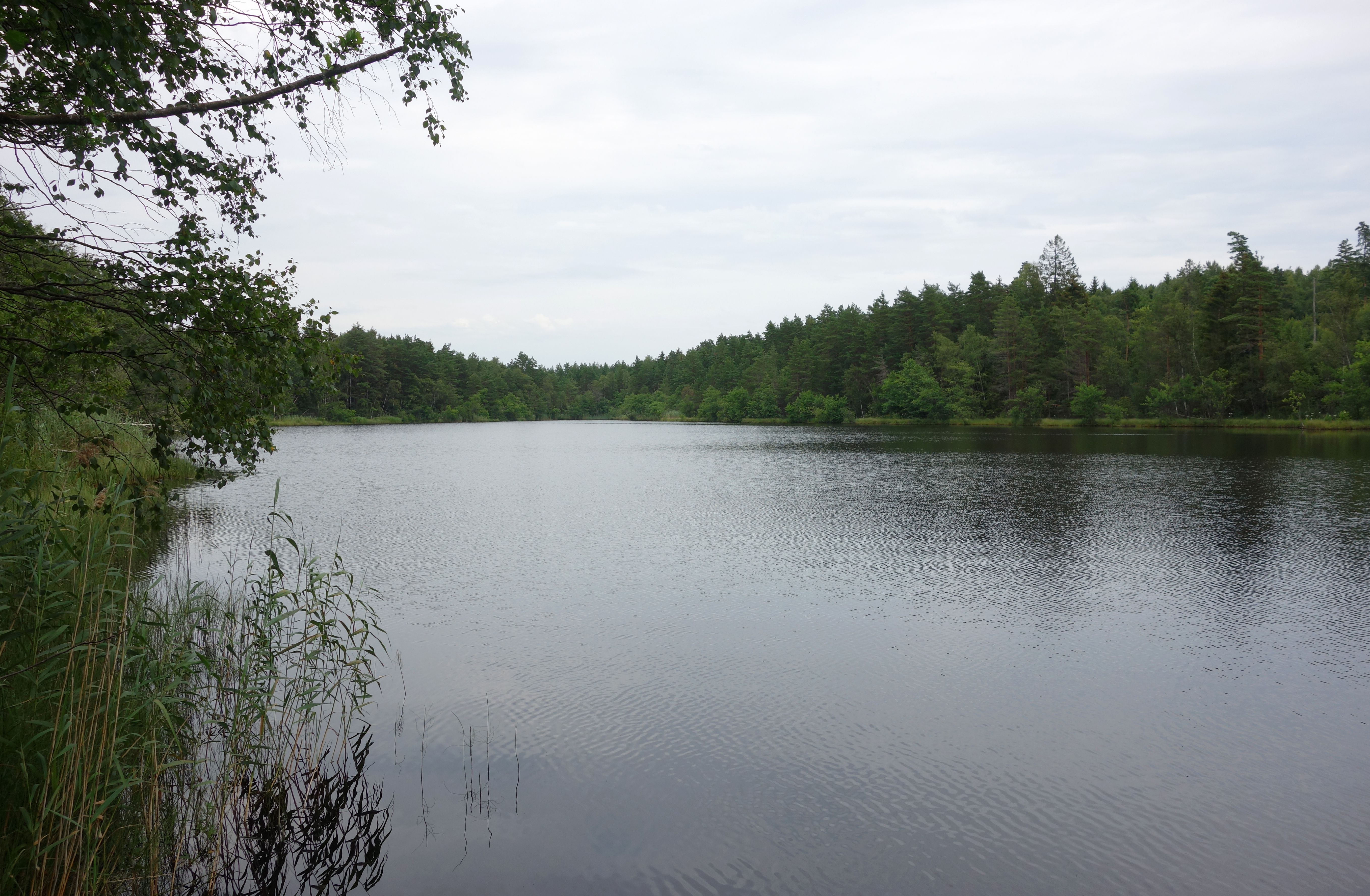 Strengsdalsvannet lake on Nøtterøy, Norway